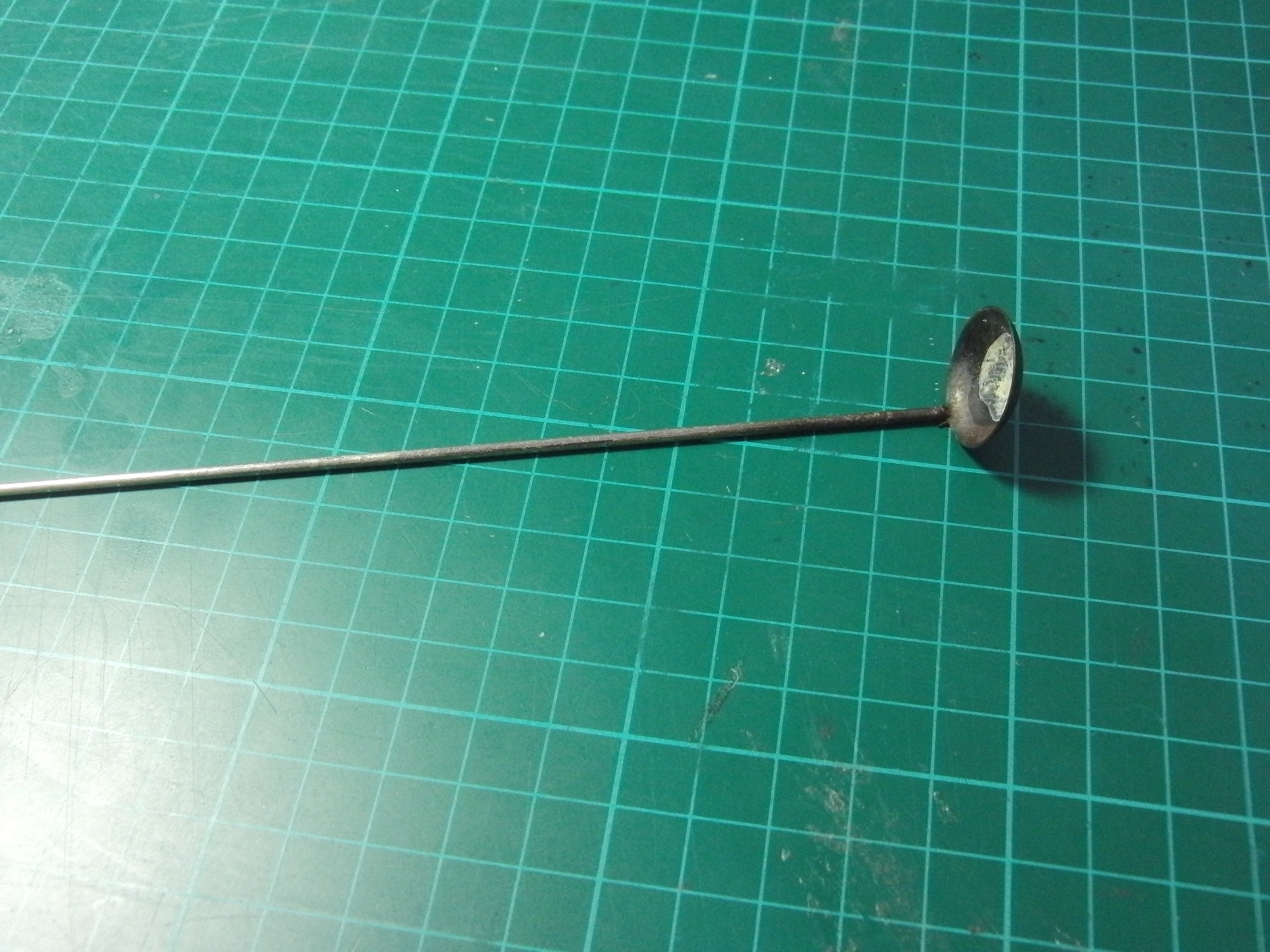 Burning spoon